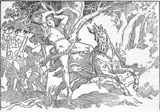 Absalom is caught in a tree II Samuel 18:9